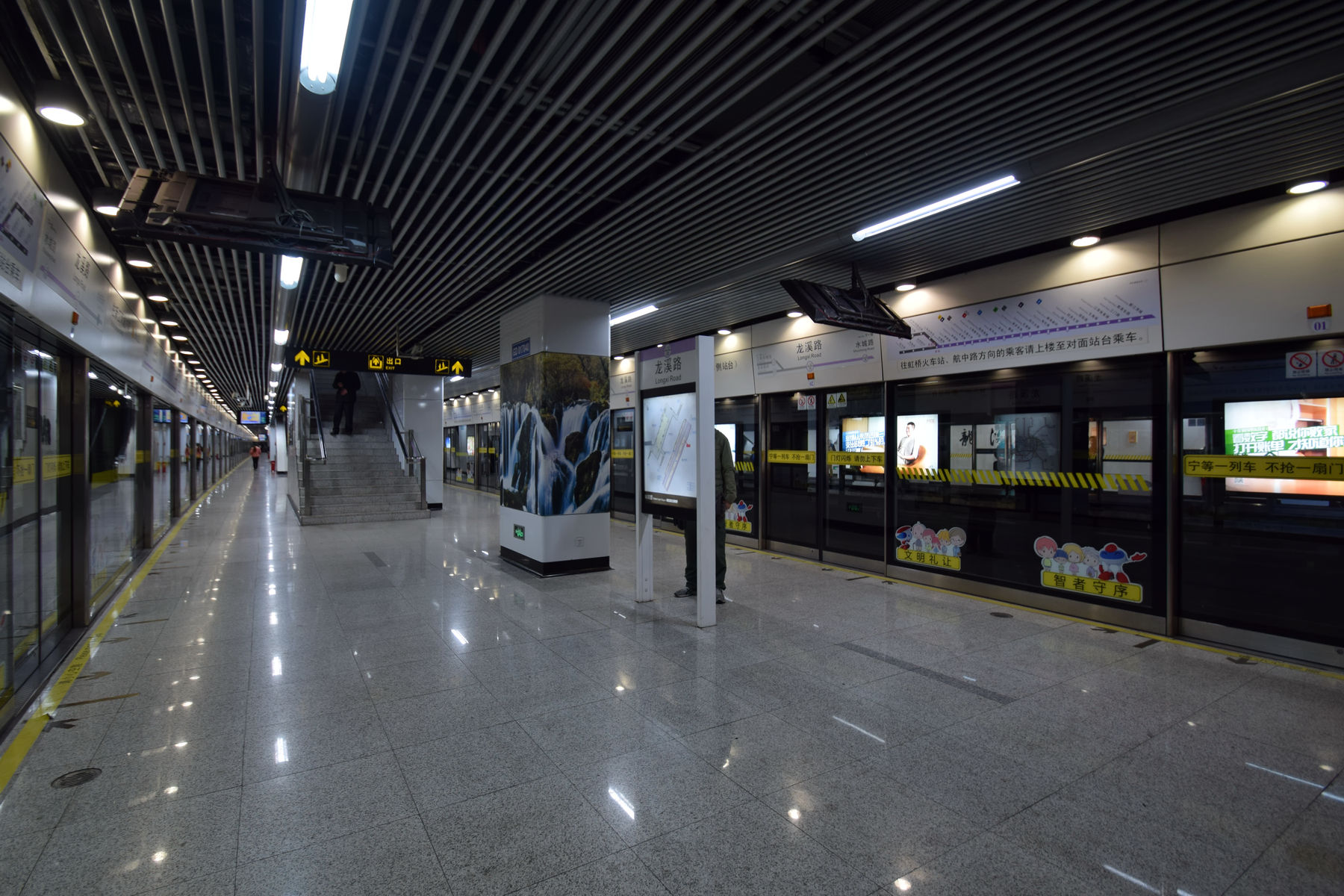 Line 10 Platform of Longxi Road Station, Shanghai Metro